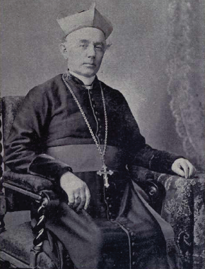 John Cameron Source: The Canadian album : men of Canada; or, Success by example, in religion, patriotism, business, law, medicine, education and agriculture; containing portraits of some of Canada's chief business men, statesmen, farmers, men of the learned professions, and others; also, an authentic sketch of their lives; object lessons for the present generation and examples to posterity (Volume 3) (1891-1896) Creator:Cochrane, William, 1831-1898 Creator:Hopkins, J. Castell (John Castell), 1864-1923 Publisher:Brantford, Ont. : Bradley, Garretson & Co. Date:1891-1896